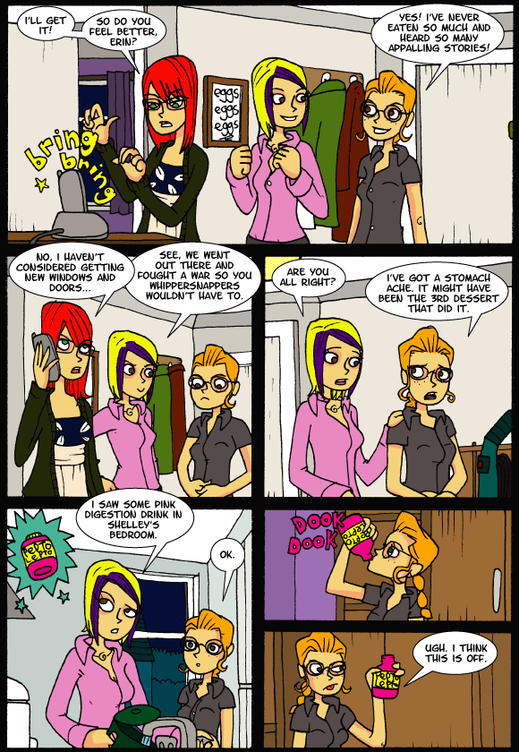 Sample of the comic Scary Go Round downloaded from copyright and attribution: John Allison. This sample shows six coloured rectangular panels drawn in Ligne claire style and with standard speech balloons. Reading left to right and top to bottom, panels one and five show coloured onomatopoeic text without balloons depicting sound effects, while panel four depicts the mentioned object inside a separate jagged balloon.